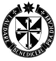 Dominican cross